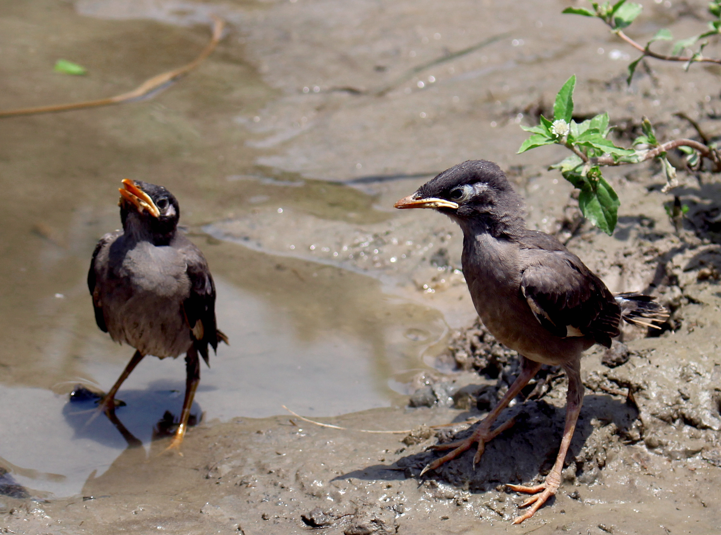 Common Myna Acridotheres tristis, juveniles